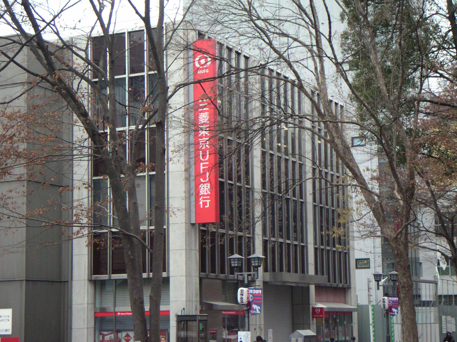 Bank of Tokyo-Mitsubishi UFJ, Fuchu Branch